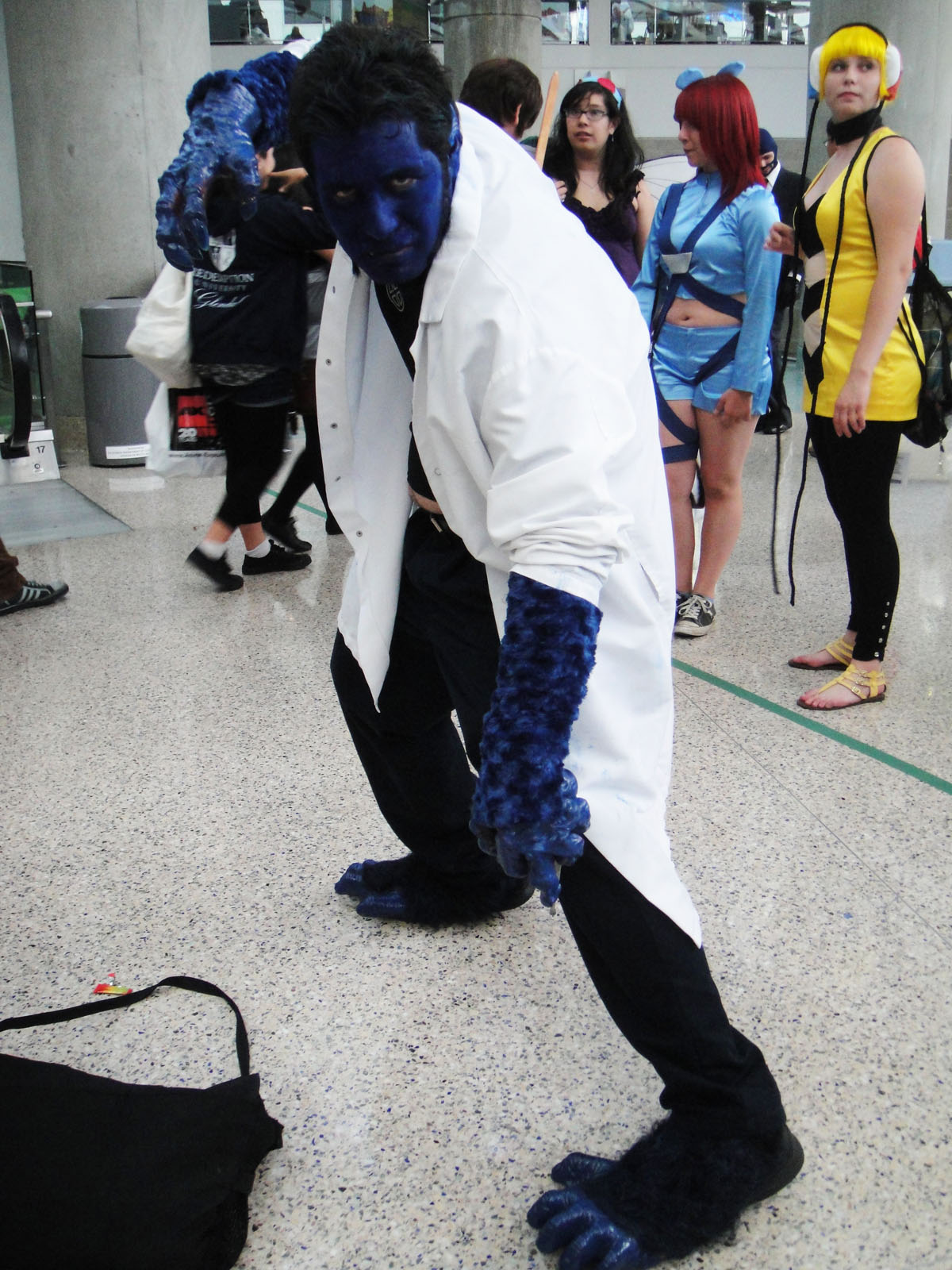 Anime Expo 2011 - Beast of the X-Men.